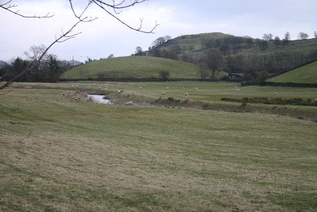 River Gowan and Farmland